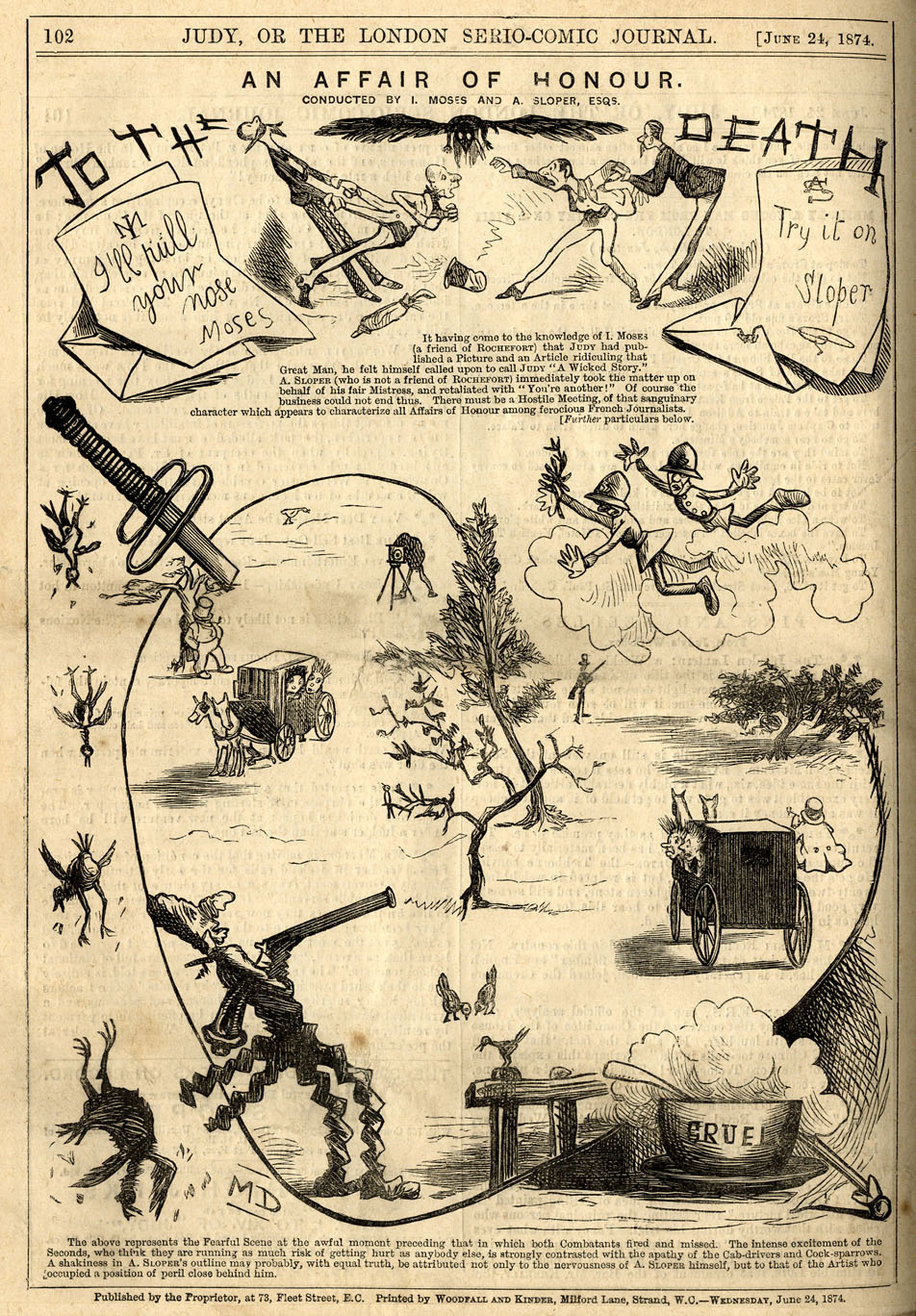 A page featuring Ally Sloper drawn (and probably written) by Mary Duval and published in Judy in the 1870's. For more details, see the title.